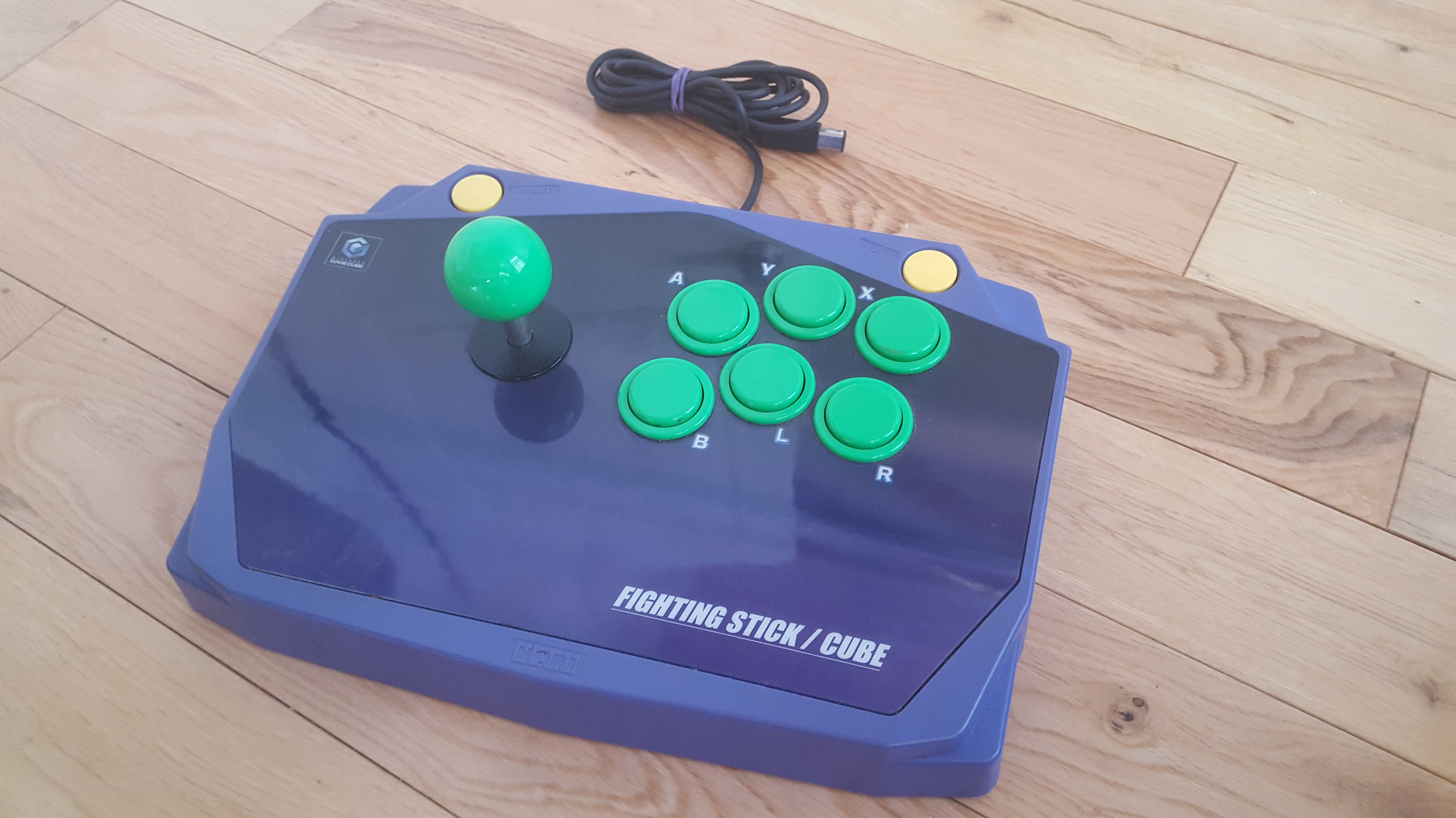 GameCube arcade fighting stick. Built by Hori and officially licensed by Nintendo. This is one variant, the other has a Soul Calibur II faceplate.